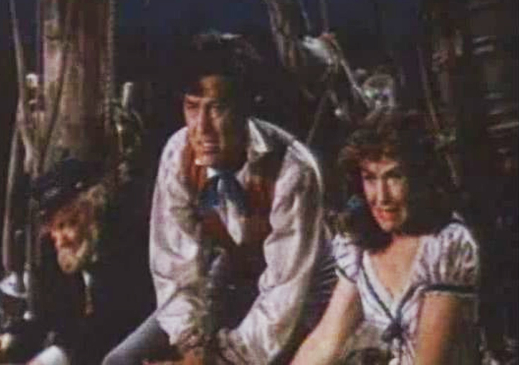 Screenshot of Ray Milland and Paulette Goddard from the trailer for the film Reap the Wild Wind